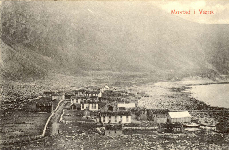 taken from and old postcard dated 1900